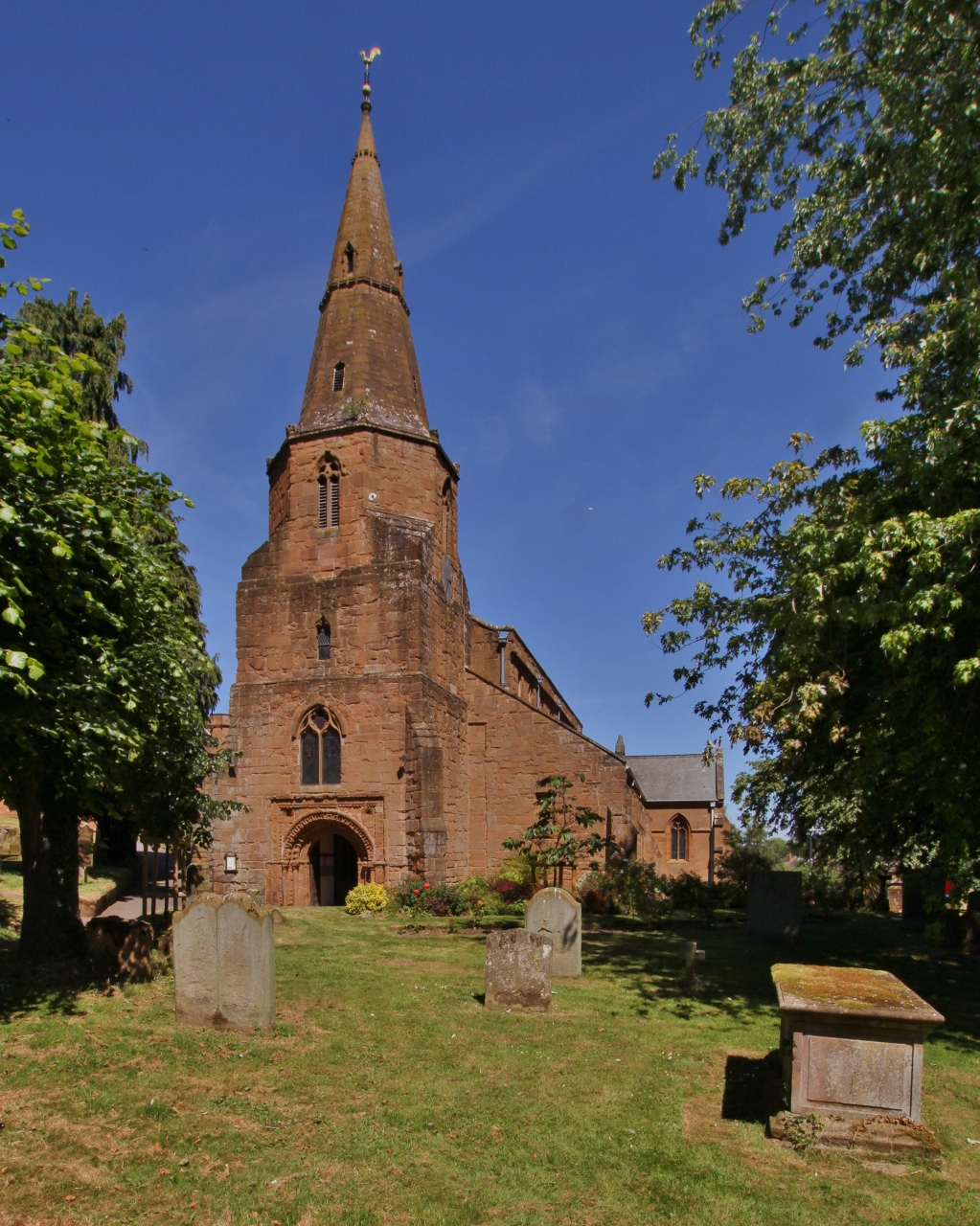 Parish church of St Nicholas, Kenilworth, Warwickshire, seen from the southwest